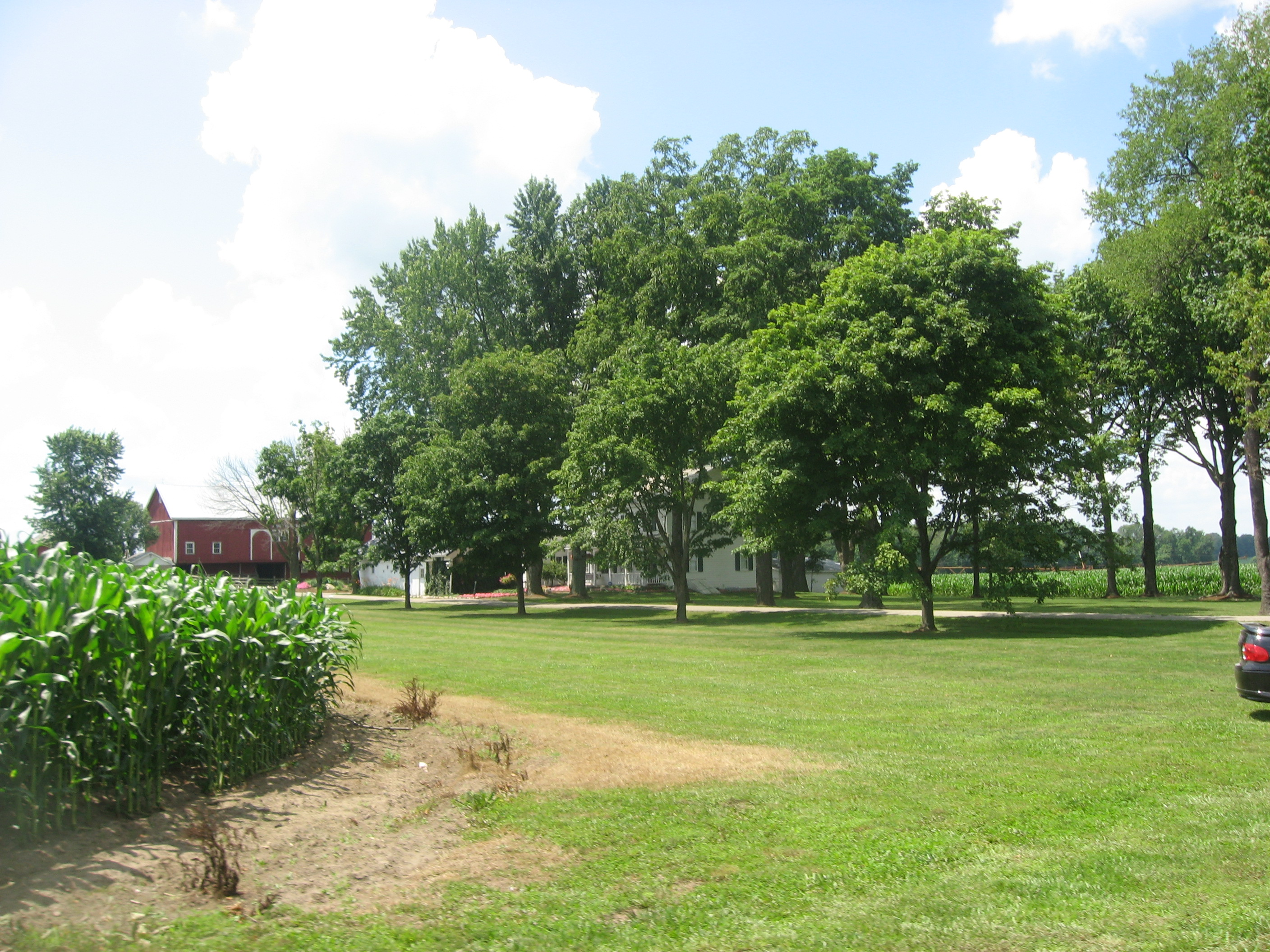 Roadside view of the Joseph J. Rohrer Farm, located at 24394 County Road 40 southwest of Goshen in Harrison Township, Elkhart County, Indiana, United States. Built in 1854, it is listed on the National Register of Historic Places.